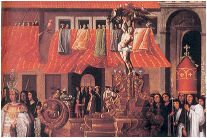 Inka Bodies and the Body of Christ" Corpus Christi in Colonial Cuzco, Perú. De Carolyn Dean